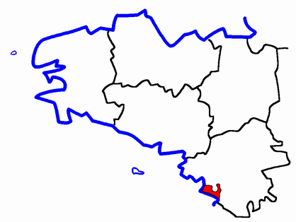 Description: Map for localisazion of cantons of Pays-de-Loire, region in France Source: made by Hervé Tigier in april 2005 from another large map (published in 1990)